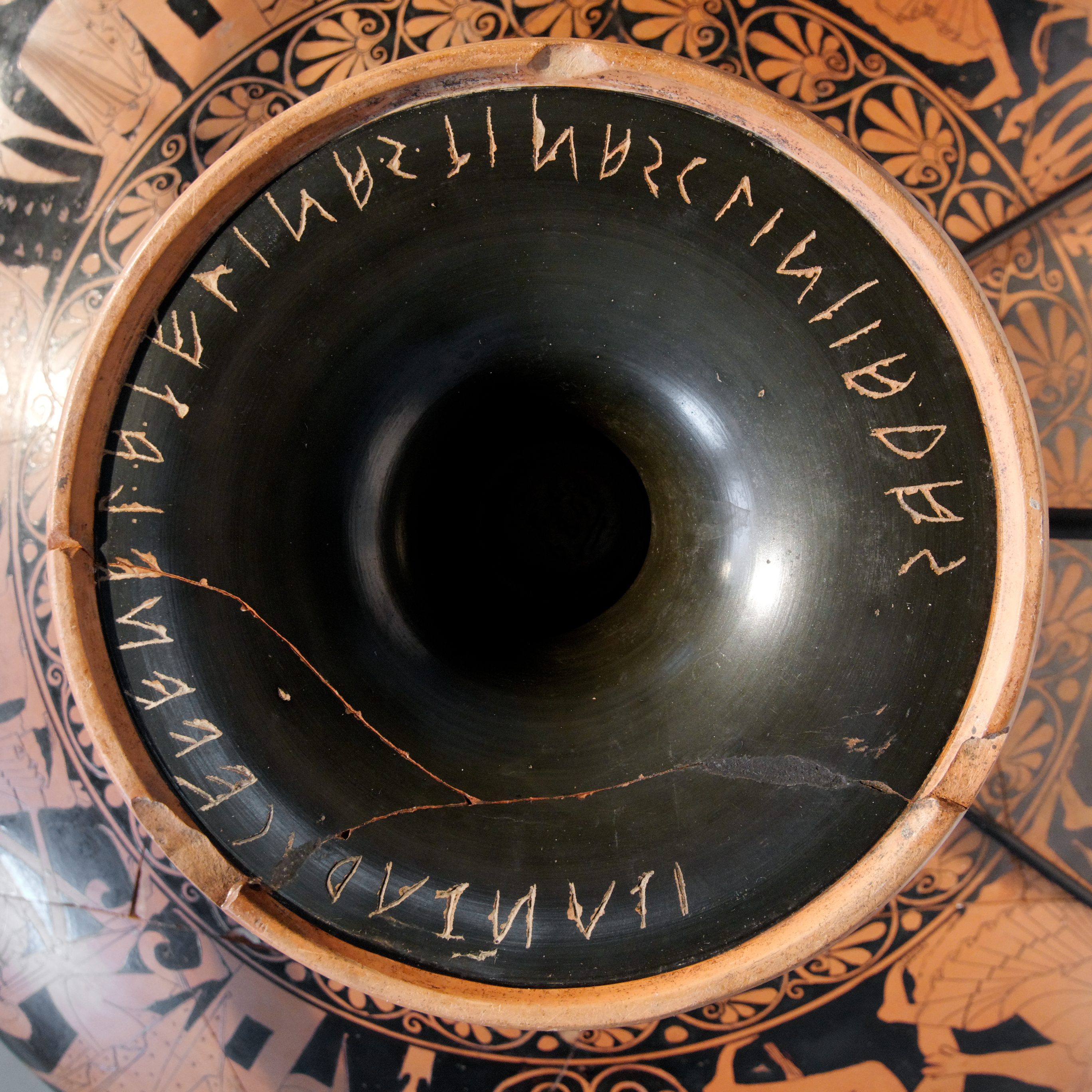 Foot of an Attic red-figure kylix with a dedicatory inscription in Etruscan letters by Venel Apelinas (or Atelinas) to the ‘sons of Zeus’ (the Dioskouroi).